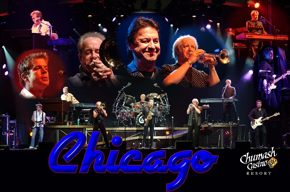 Chicago in concert at the Chumash Casino Resort in Santa Ynez, California.